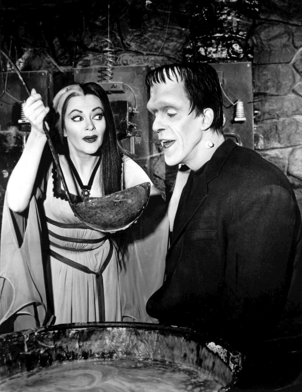 Photo of Lily and Herman Munster.